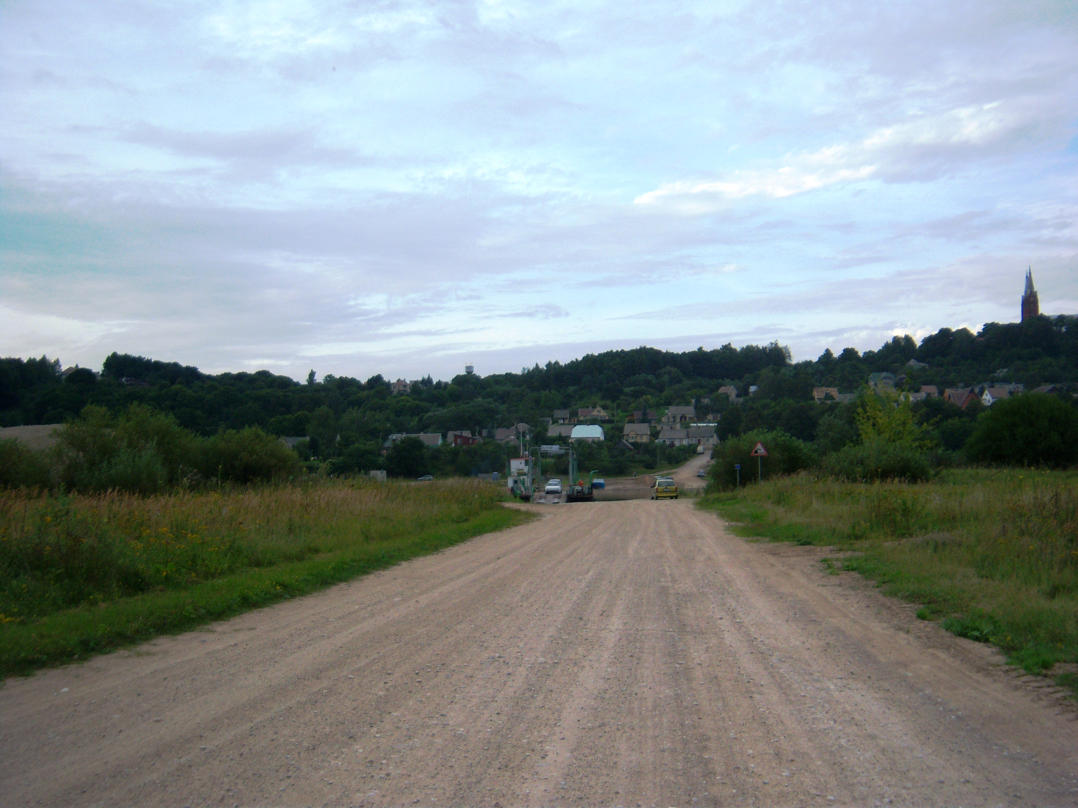 Pavilkijys village by Nemunas River, gravel road to cable ferry, Šakiai district. Lithuania